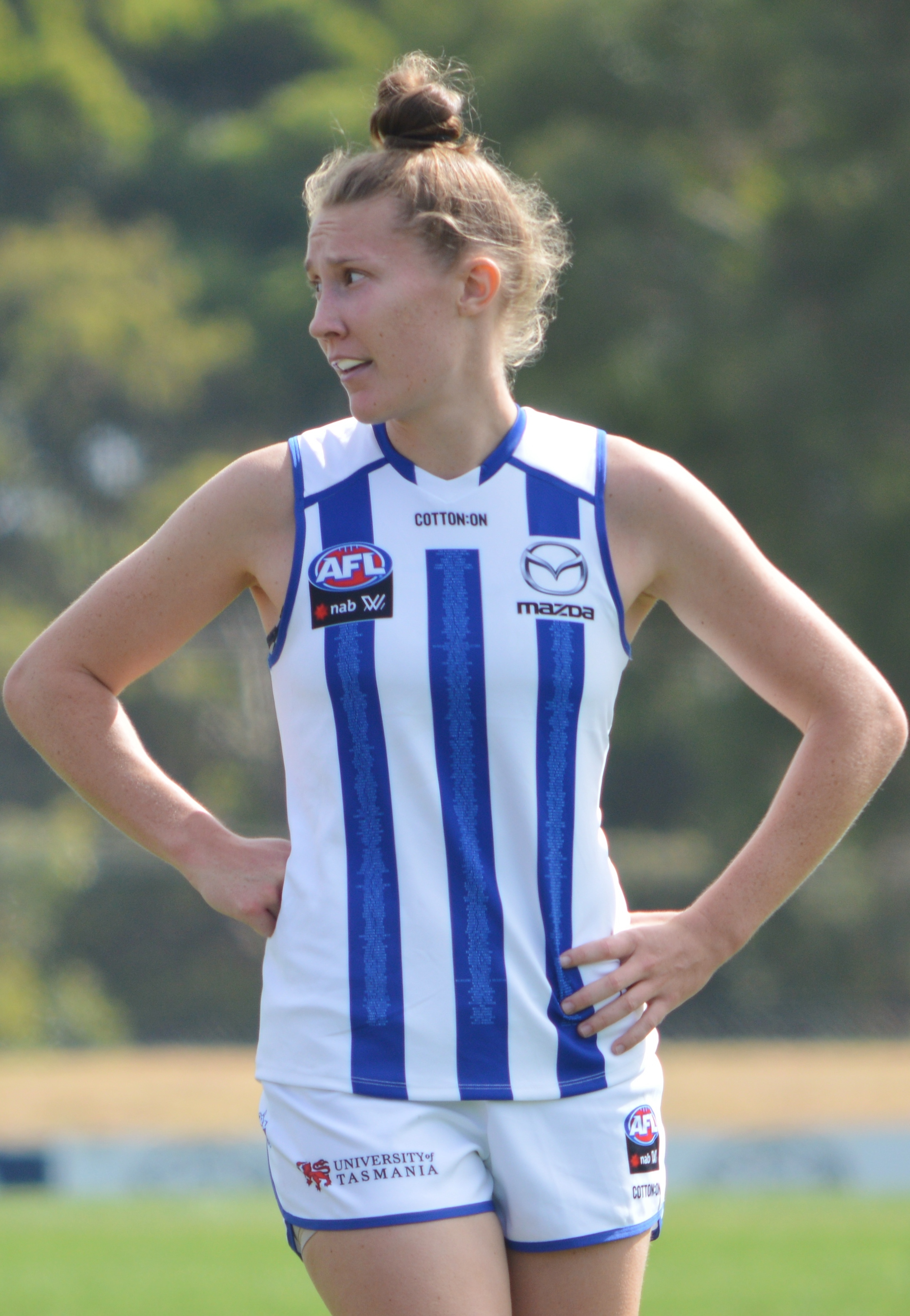 Tahlia Randall with North Melbourne during an AFLW practice match against Melbourne at Casey Fields on 19 January 2019.